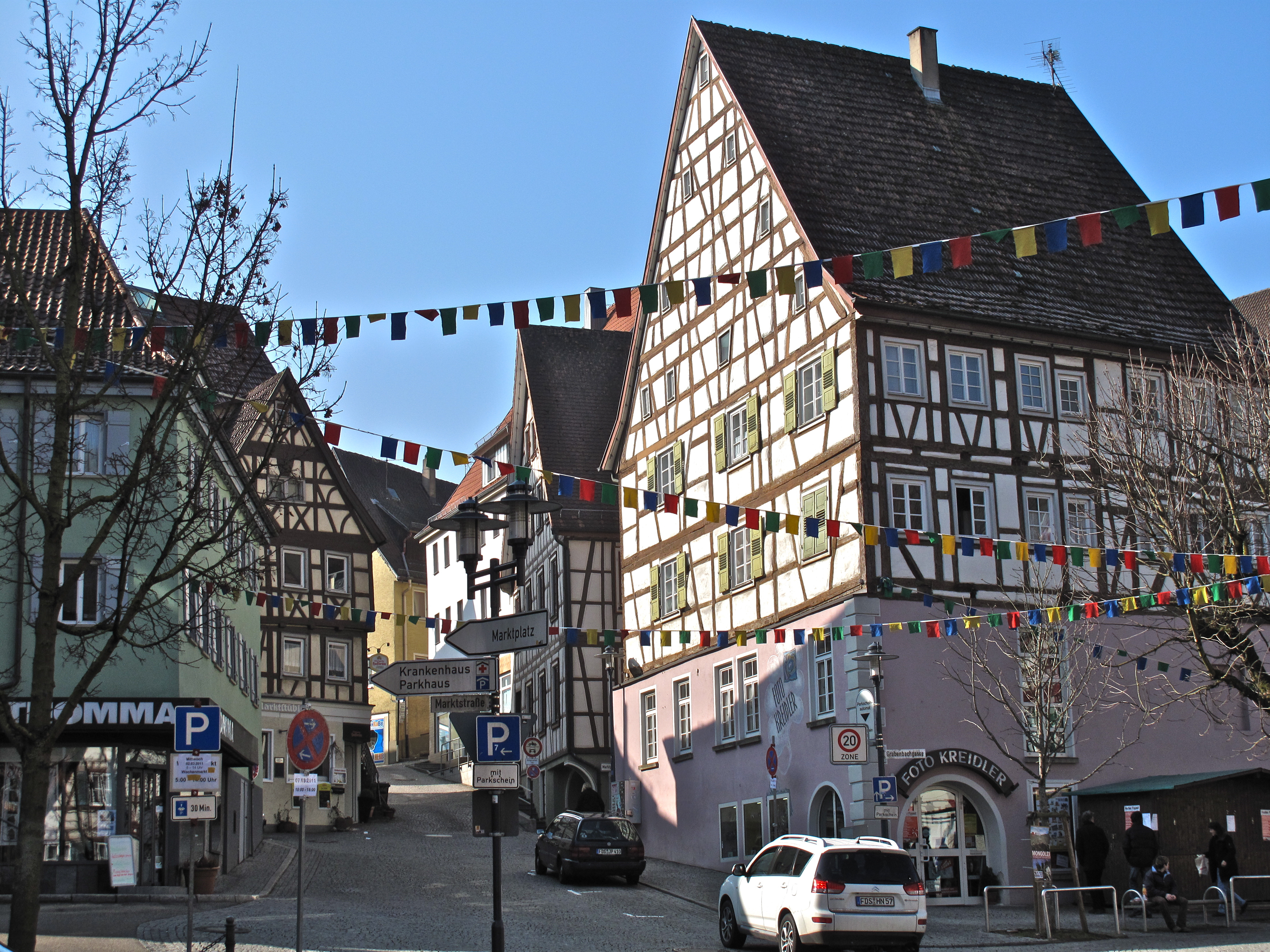 Horb am Neckar